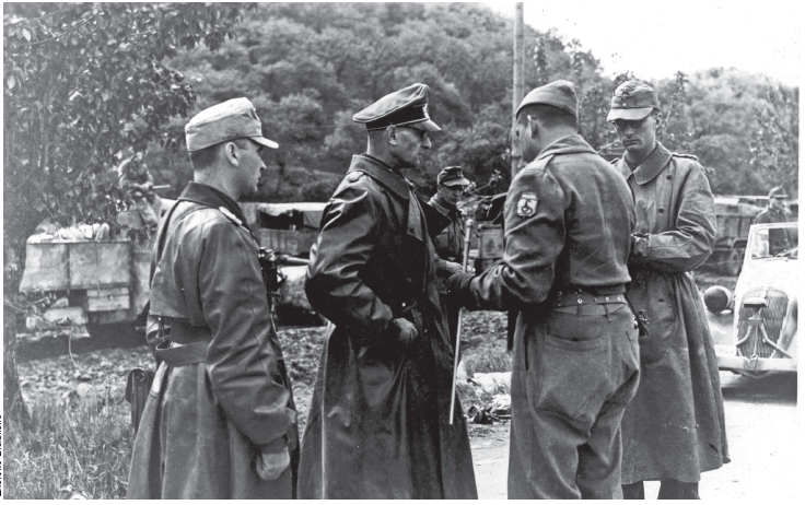 German General Otto Freter Pico, Commander of the 148th Infantry Division, and General Mario Carloni surrendering to the Brazilian FEB after the battle of Fornovo di Taro.